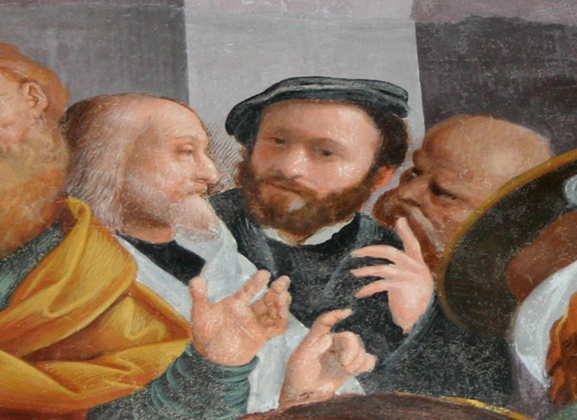 Selfportrait with his master Gaudenzio Ferrari and his colleague Giovan Battista della Cerva. Detail from the cetnral section of the Martyrdom of Saint Catherine of Alexandria, a fresco in Saint Catherine of Alexandria chapel in San Nazaro Maggiore basilica in Milan. Detail from the left sloped side: the trial of Saint Catherine. MediumfrescoCurrent locationCappella di Santa CaterinaSource/PhotographerOwn work, Giovanni Dall'Orto, 5 May 2007Permission (Reusing this file) This is a faithful photographic reproduction of a two-dimensional, public domain work of art. The work of art itself is in the public domain for the following reason: This work is in the public domain in its country of origin and other countries and areas where the copyright term is the author's life plus 100 years or less. You must also include a United States public domain tag to indicate why this work is in the public domain in the United States. This file has been identified as being free of known restrictions under copyright law, including all related and neighboring rights. The official position taken by the Wikimedia Foundation is that "faithful reproductions of two-dimensional public domain works of art are public domain". This photographic reproduction is therefore also considered to be in the public domain in the United States. In other jurisdictions, re-use of this content may be restricted; see Reuse of PD-Art photographs for details.